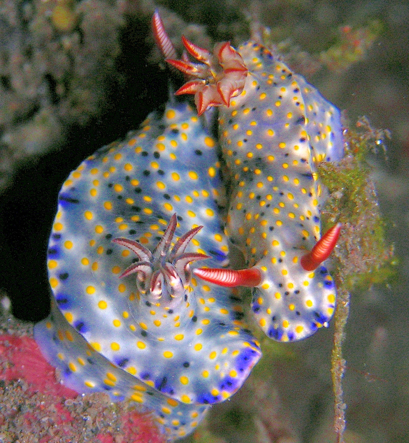 Hypselodoris infucata - This is in fact Hypselodoris confetti Gosliner & R.F. Johnson, 2018